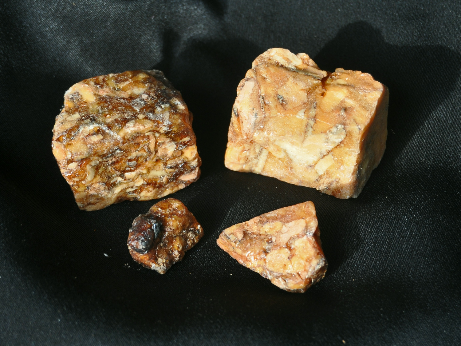 Processed Sumatran Benzoin (Styrax benzoin) resin: of lower (left) and better quality (right). From Gombong, Central Java.